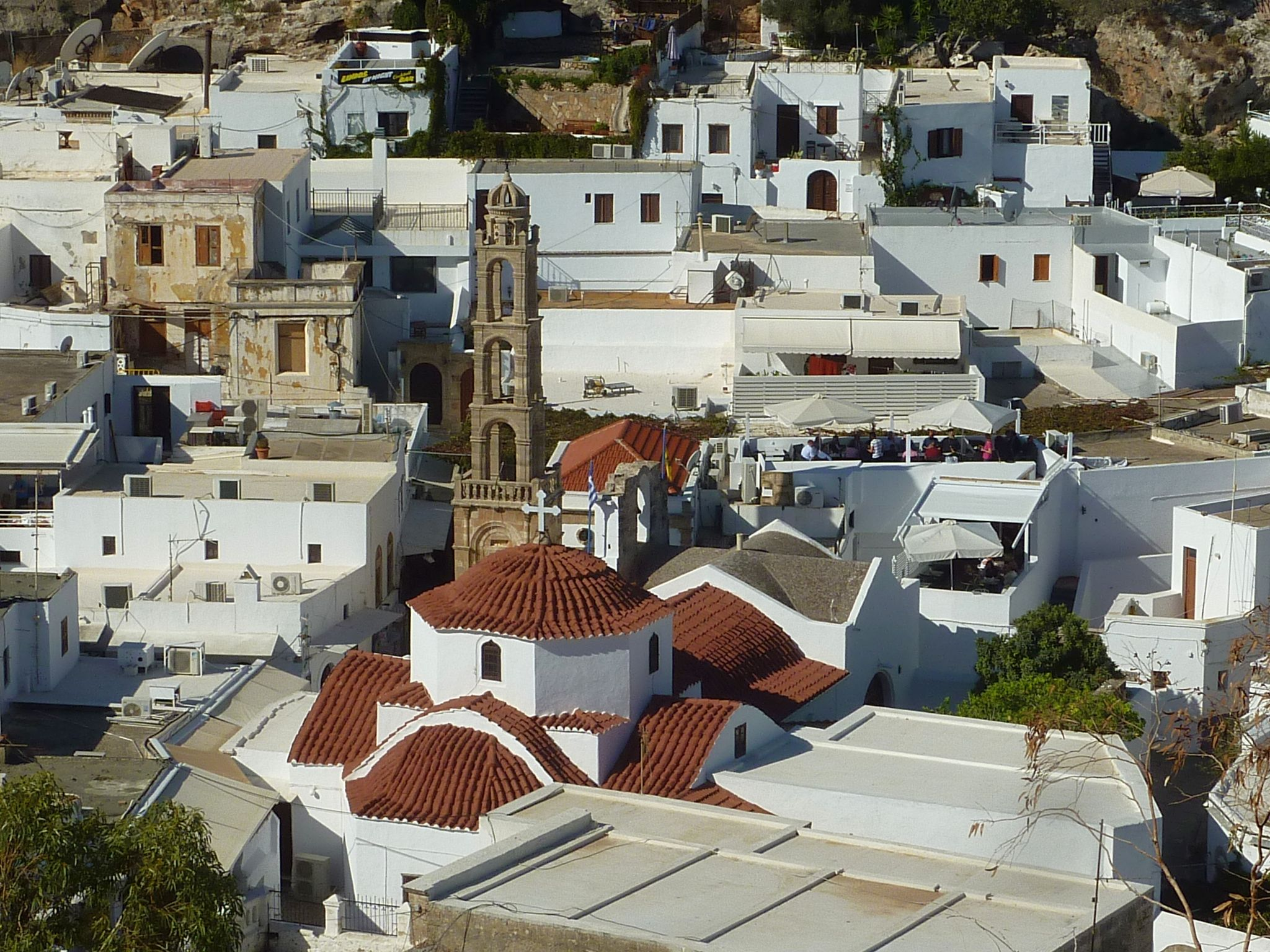 Church of Panagia (Lindos)